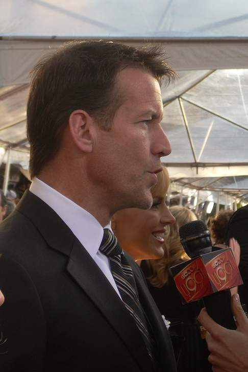 Actor James Denton, star "Desperate Hausewives", at the 15th Screen Actors Guild Awards